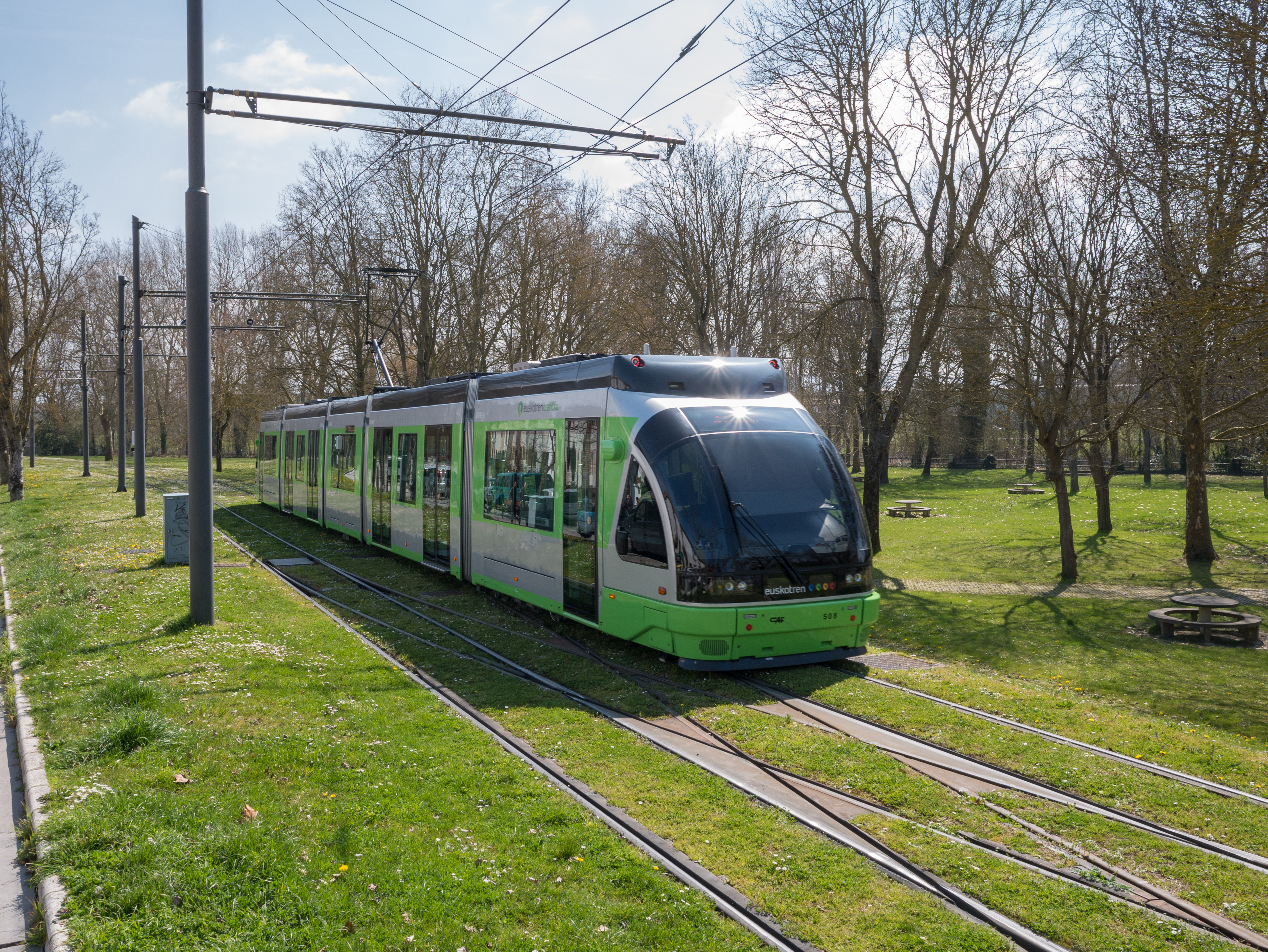 Tramway in the quarter of Abetxuko. Vitoria-Gasteiz, Basque Country, Spain